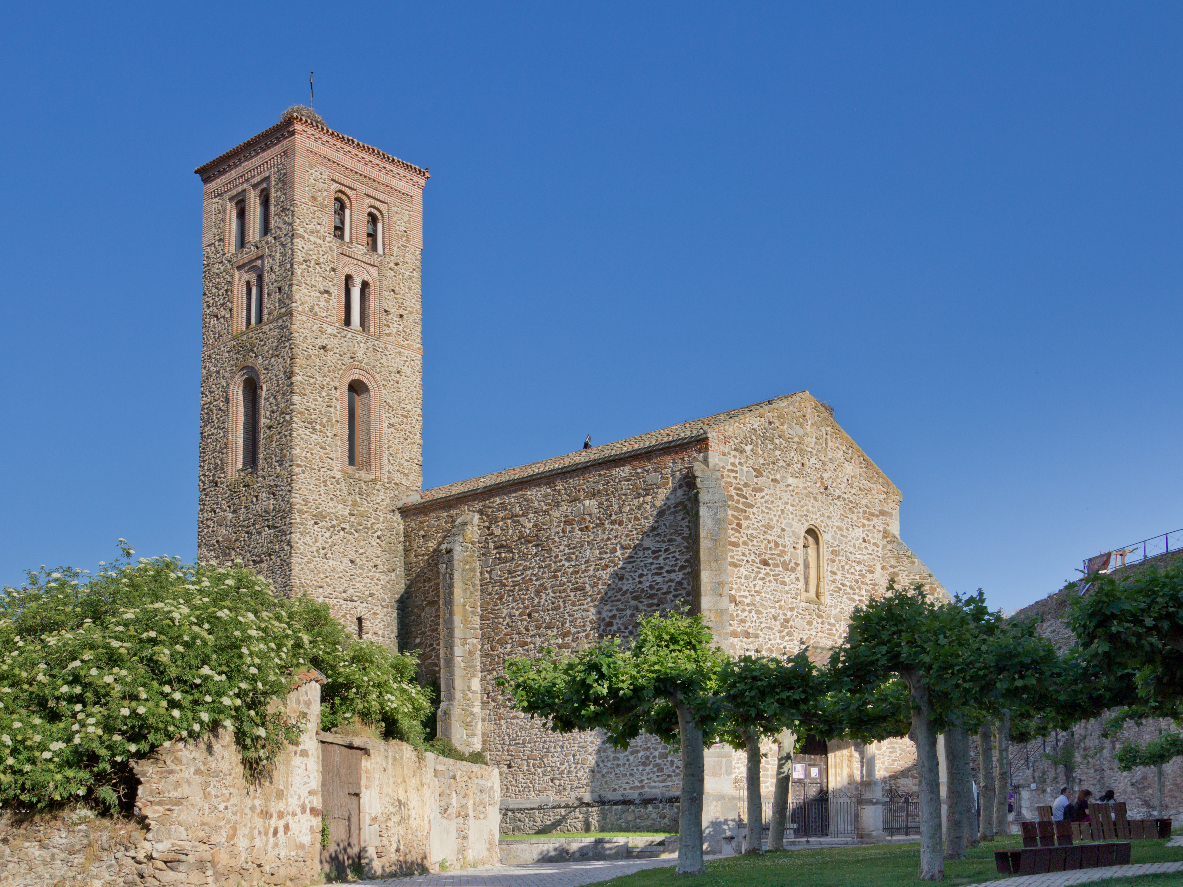 Church of Santa María del Castillo, Buitrago del Lozoya, Community of Madrid, Spain.